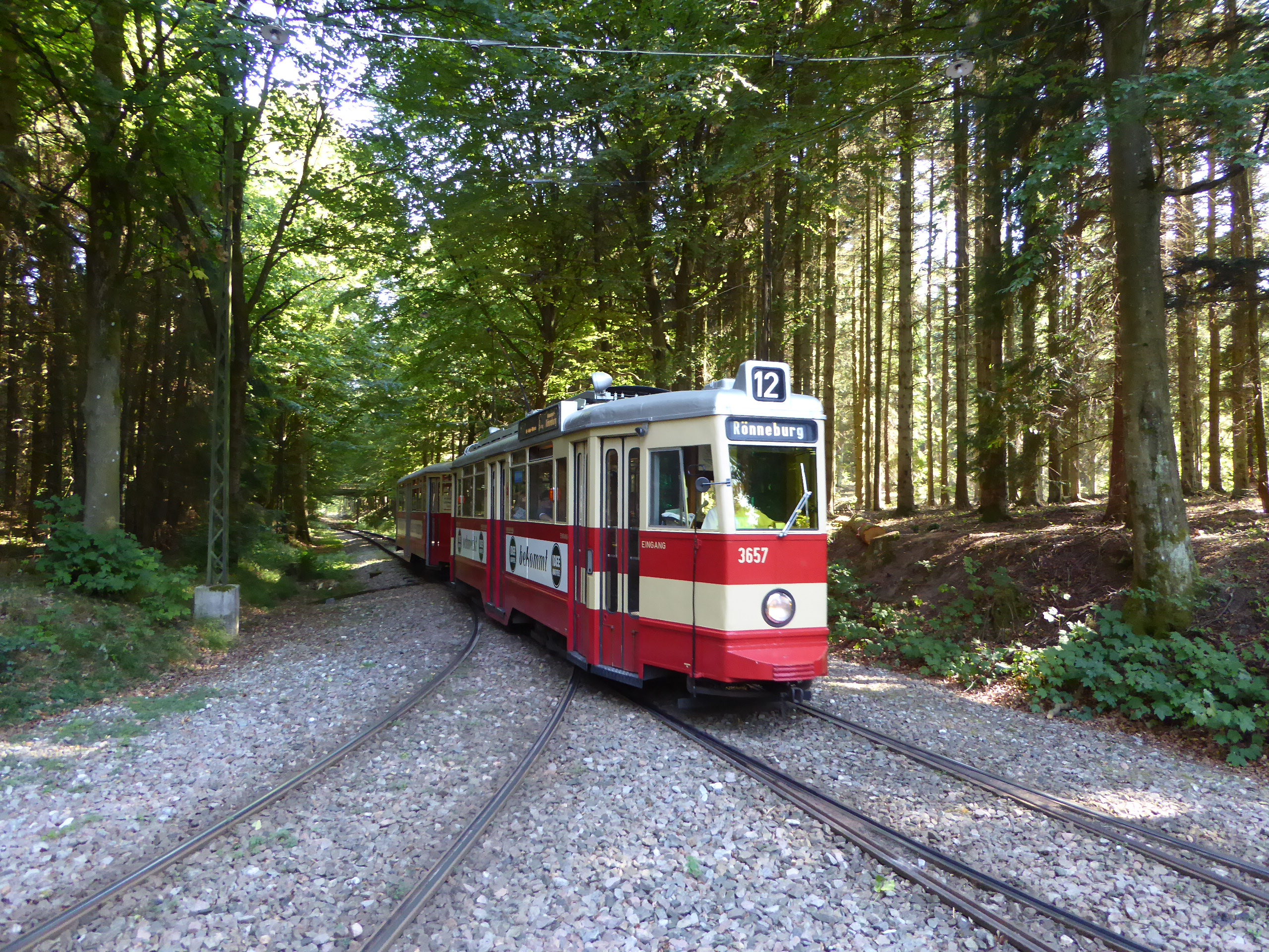 Old trams of Hamburg, HHA 3657 from 1952 and HHA 4384 from 1957, at Eilers Eg at Sporvejsmuseet Skjoldenæsholm in Denmark.